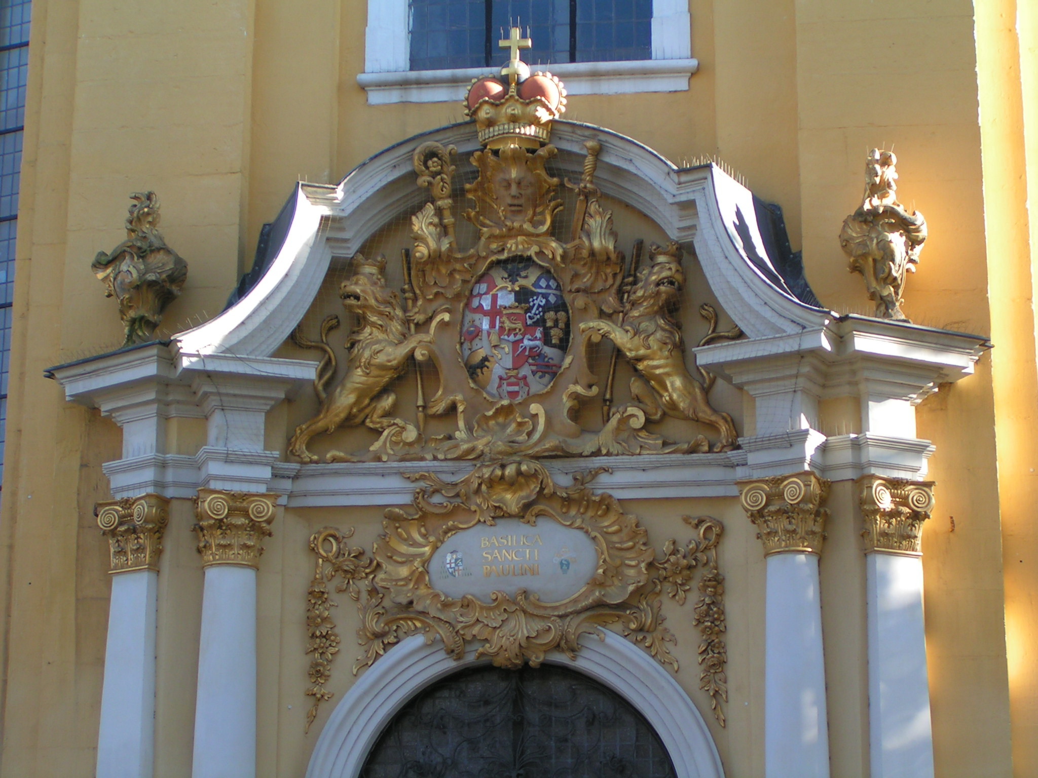 St. Paulin, Trier, Germany